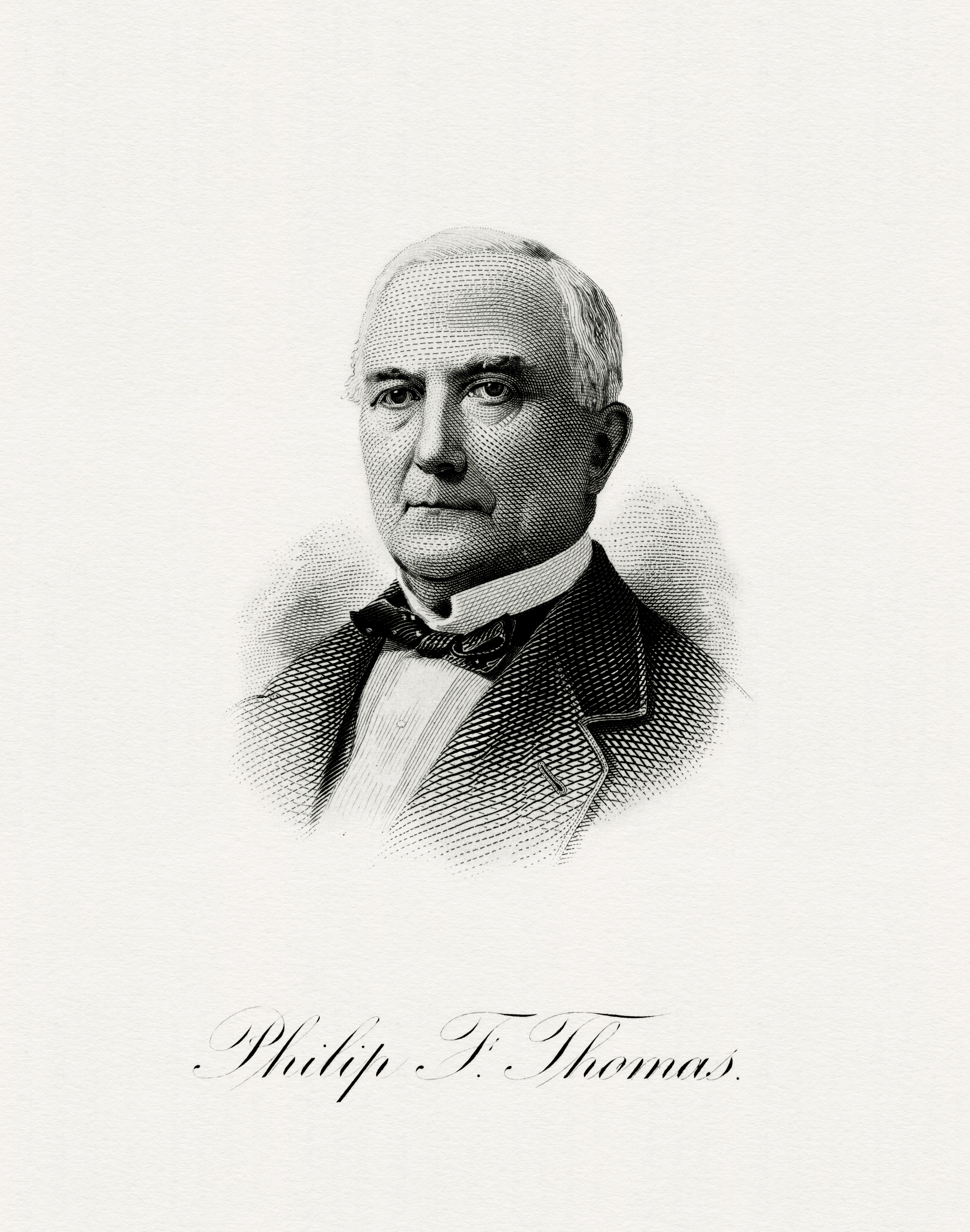 Engraved BEP portrait of U.S. Secretary of the Treasury Philip Francis Thomas